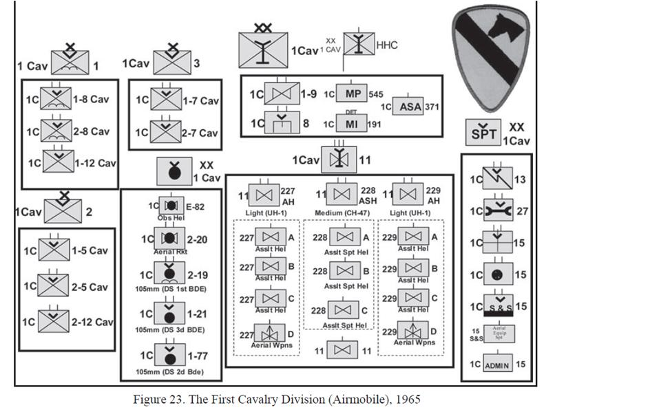 Organization Chart for the 1st Cavalry Division upon deployment to Vietnam This is a chart excerpted from a document freely available at the Fort Leavenworth web page